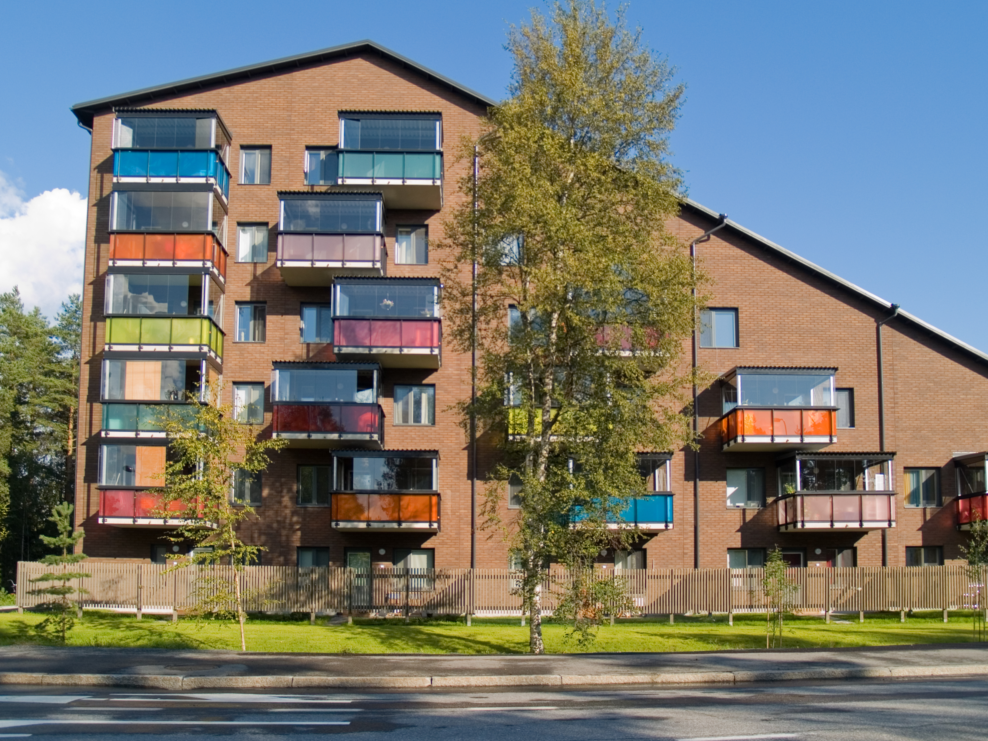 Rental apartment building at Tervasviita 9, Kivistö, Seinäjoki, Finland.